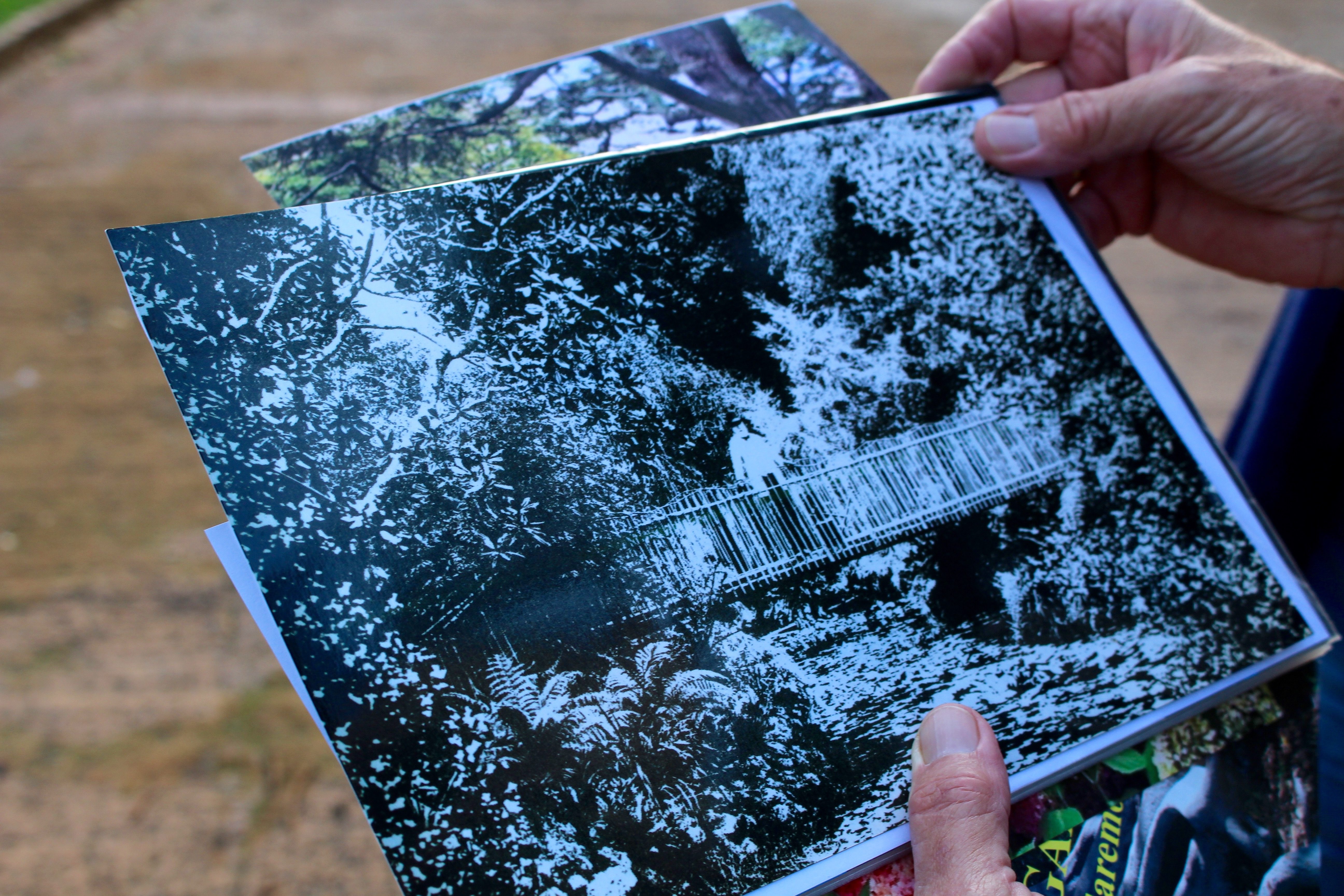 A copy of a vintage photograph is handled by Hank Lith during a tour of the Arderne Gardens